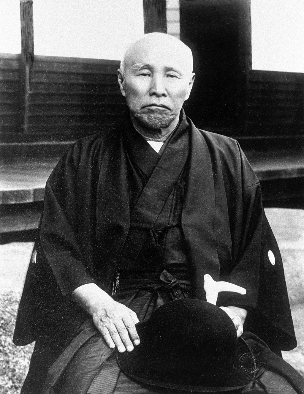 Portrait of Okuma Shigenobu (大隈重信, 1838 – 1922)